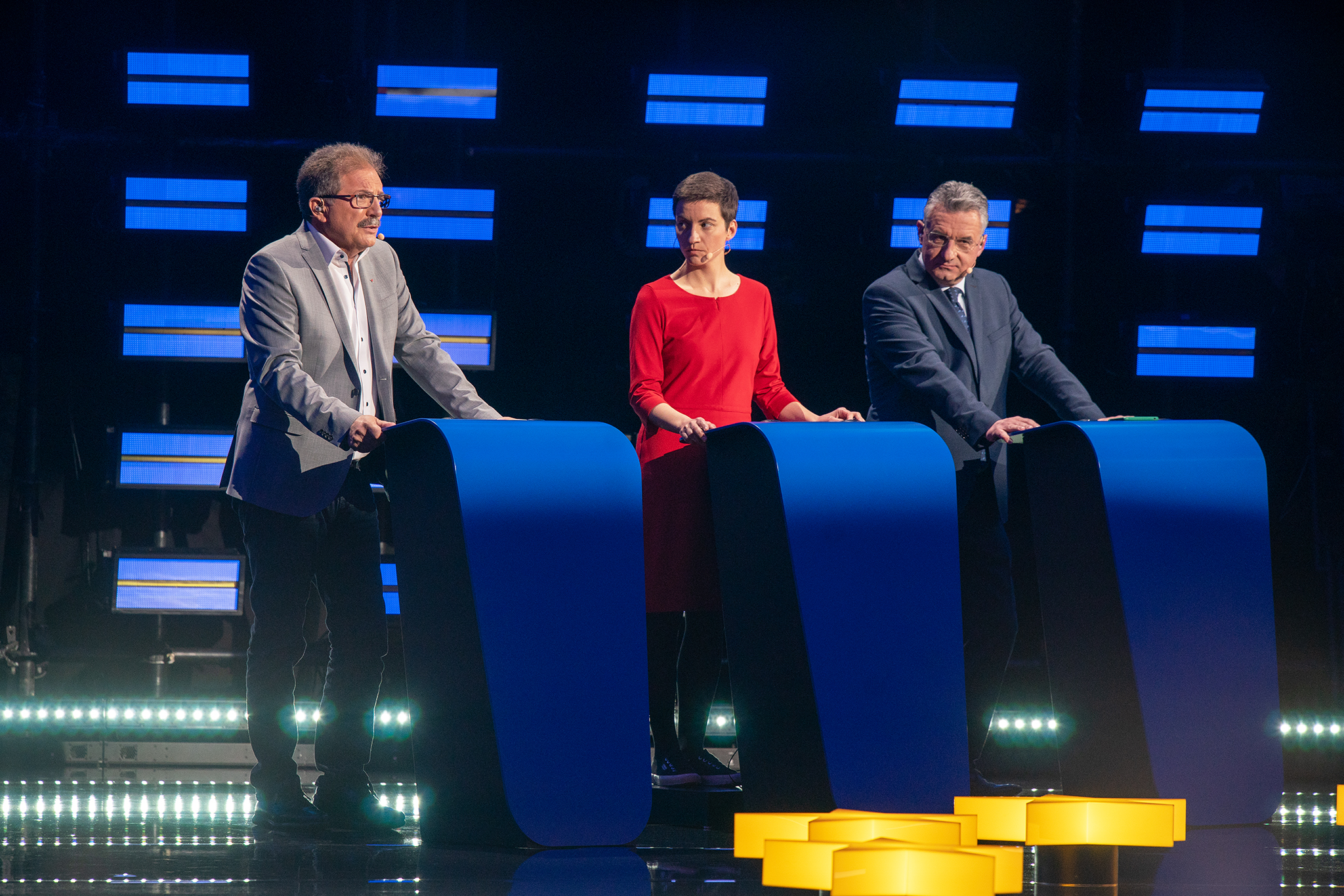 The live debate will be moderated by TV anchors Markus Preiss (ARD WDR), Emilie Tran-Nguyen (France Télévisions) and Annastiina Heikkilä (Yle) and broadcast by the EBU's public service media members and others throughout Europe. Speaking order for lead candidates is: Nico CUÉ, European Left (EL) Ska KELLER, European Green Party (EGP) Jan ZAHRADIL, Alliance of Conservatives and Reformists in Europe (ACRE) Margrethe VESTAGER, Alliance of Liberals and Democrats for Europe (ALDE) Manfred WEBER, European People’s Party (EPP) Frans TIMMERMANS, Party of European Socialists (PES) This photo is free to use under Creative Commons license CC-BY-4.0 and must be credited: "CC-BY-4.0: © European Union 2019 – Source: EP". No model release form if applicable. For bigger HR files please contact: webcom-flickr(AT)